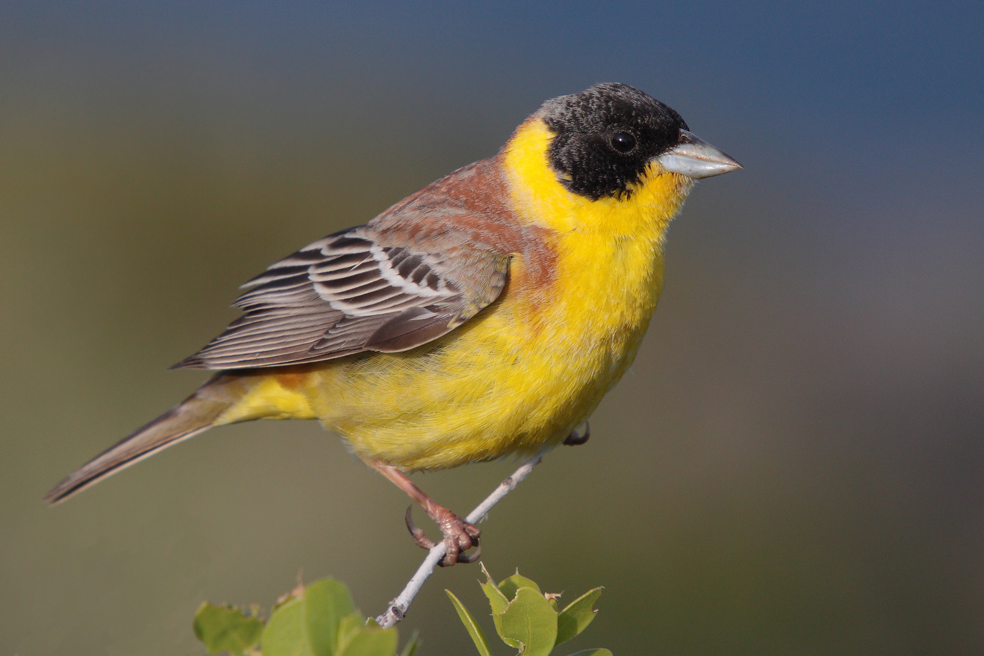 Male Black-headed Bunting on the island of Lesvos, Greece.